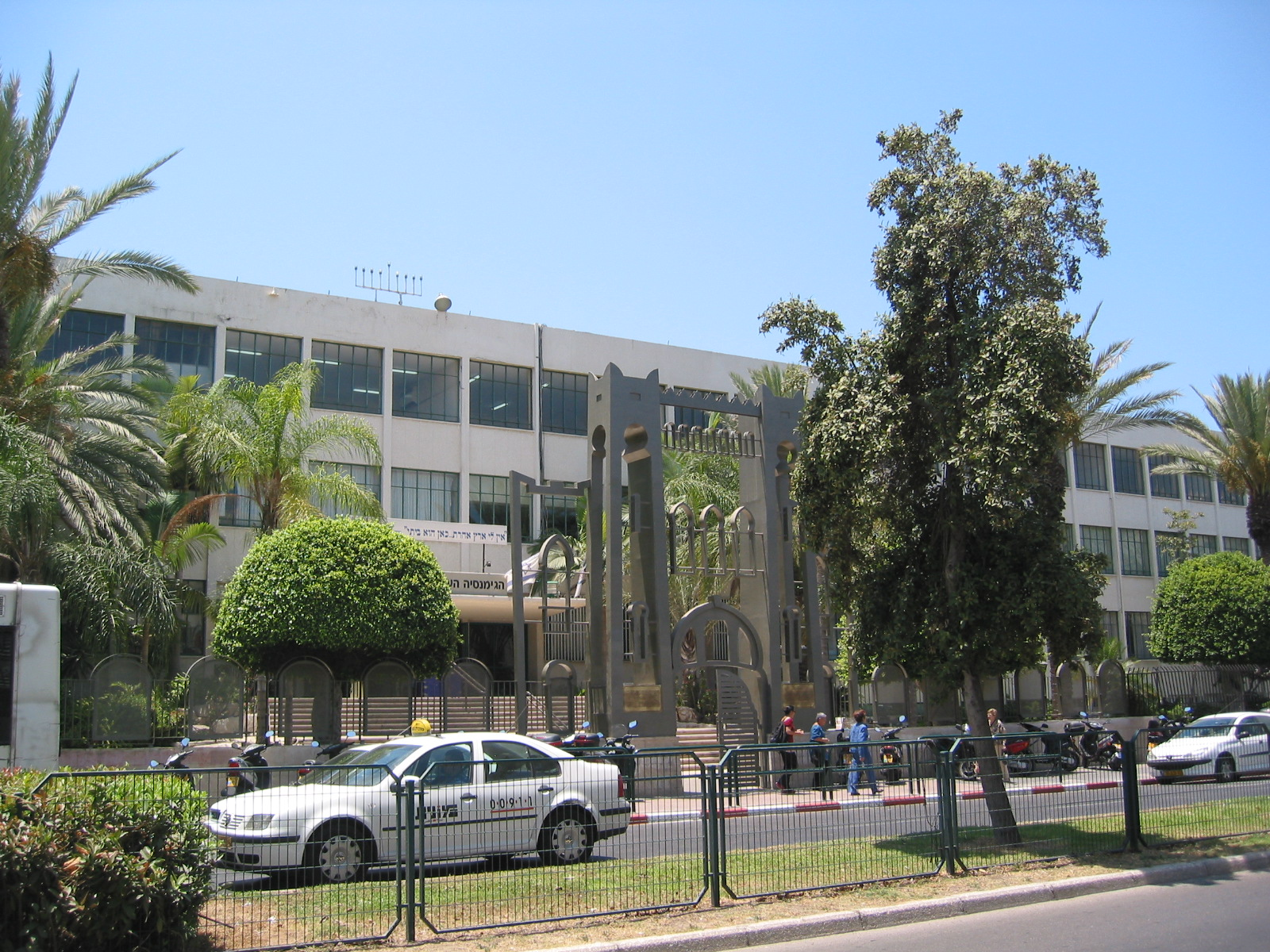 Gimnasia Herzlia in Jabotinsky Street, Tel Aviv